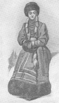 Natalia Alekseevna Shelikhova, Russian entrepreneur